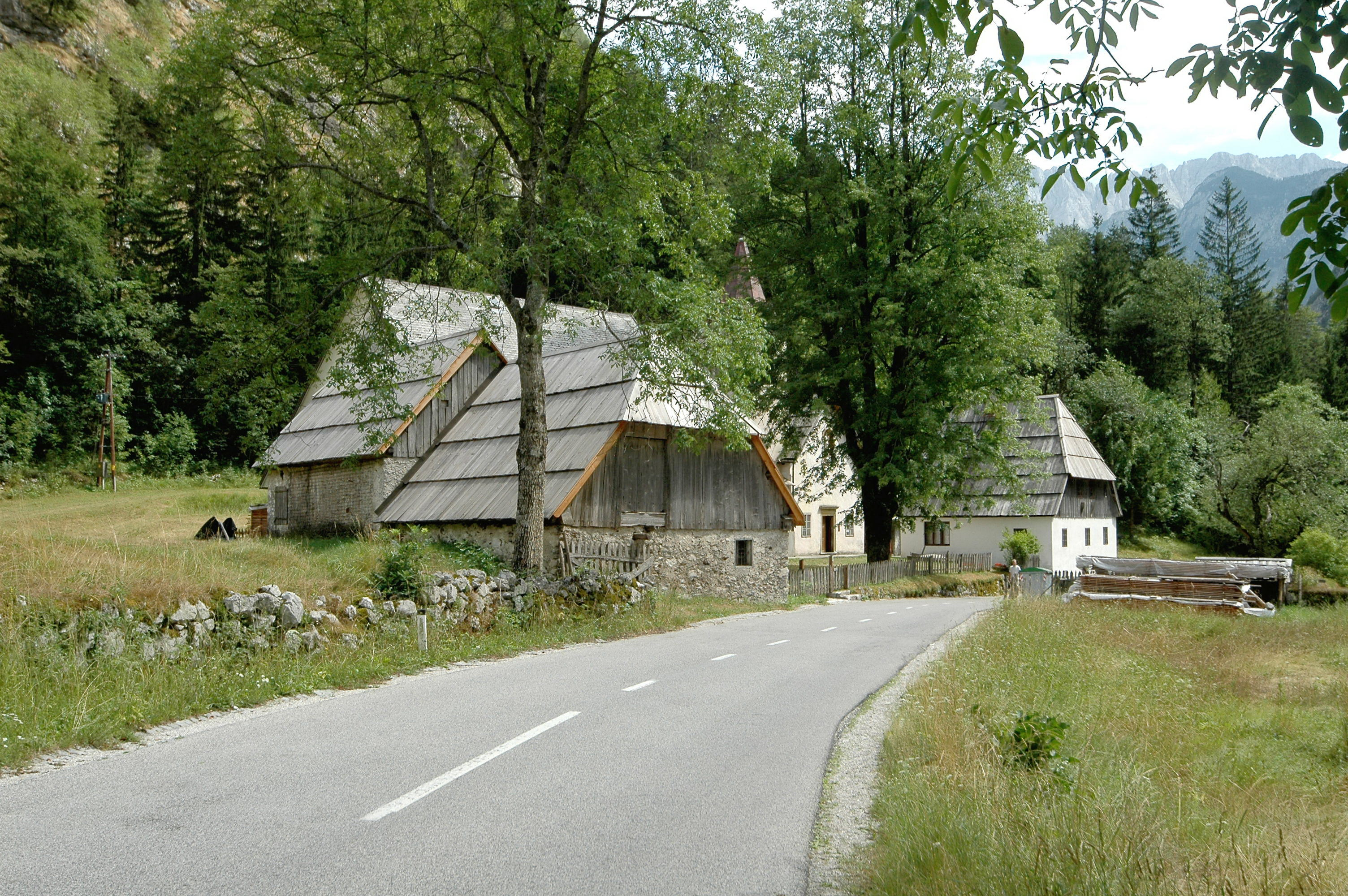 Hamlet "Pri Cerkvi" on the Soča-river, Trenta, municipality Bovec, Slovenia, EU